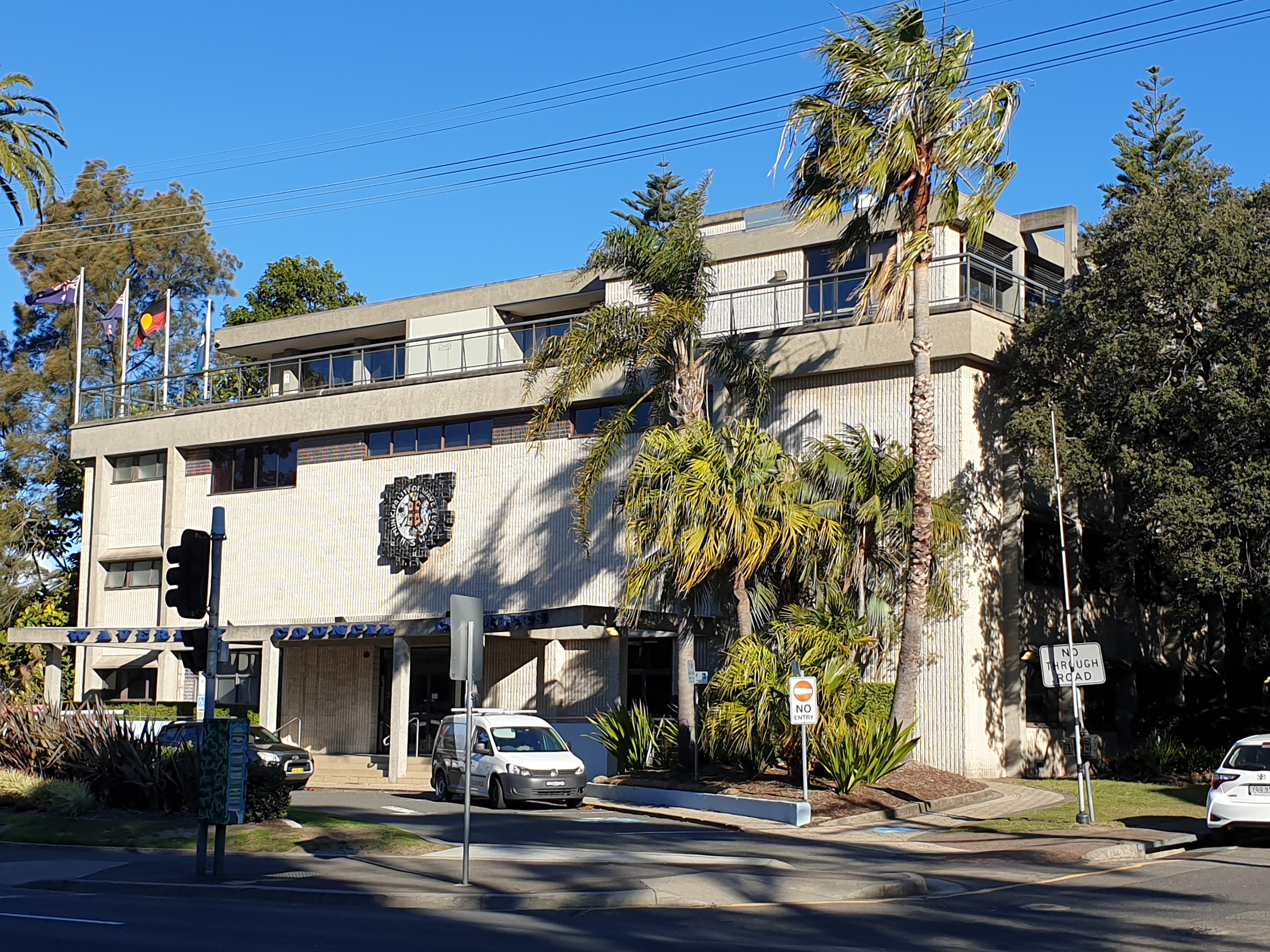 Waverley Council Chambers, Bondi Junction, New South Wales, Australia.